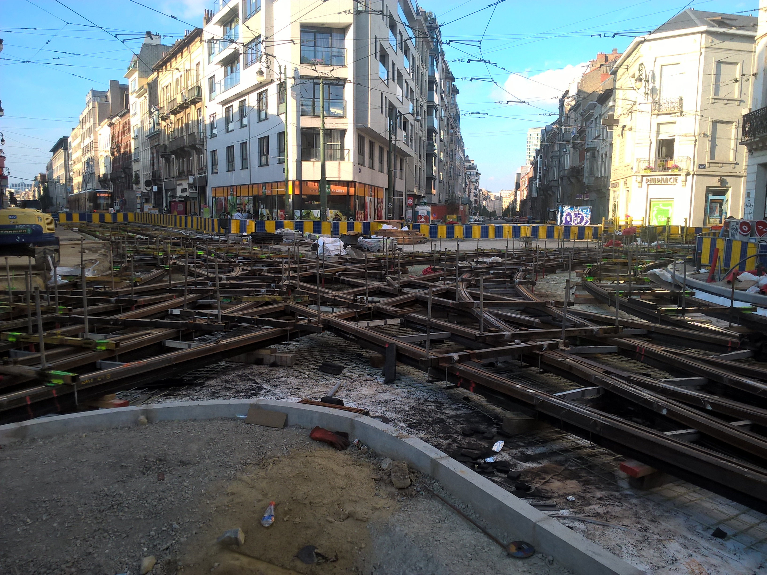 Relaying route 81, 92 and 97 tram tracks on top of a concrete raft, 'Janson', Brussels, 25 July 2015